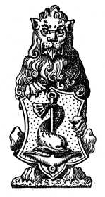 An early coat of arms of Chiswick Press.